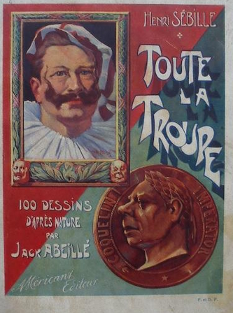 Book cover of Toute la troupe by Henri Sébille [about La Comédie-Française], Paris, Albert Méricant, with 100 illustrations by Jack Abeillé, [1902].